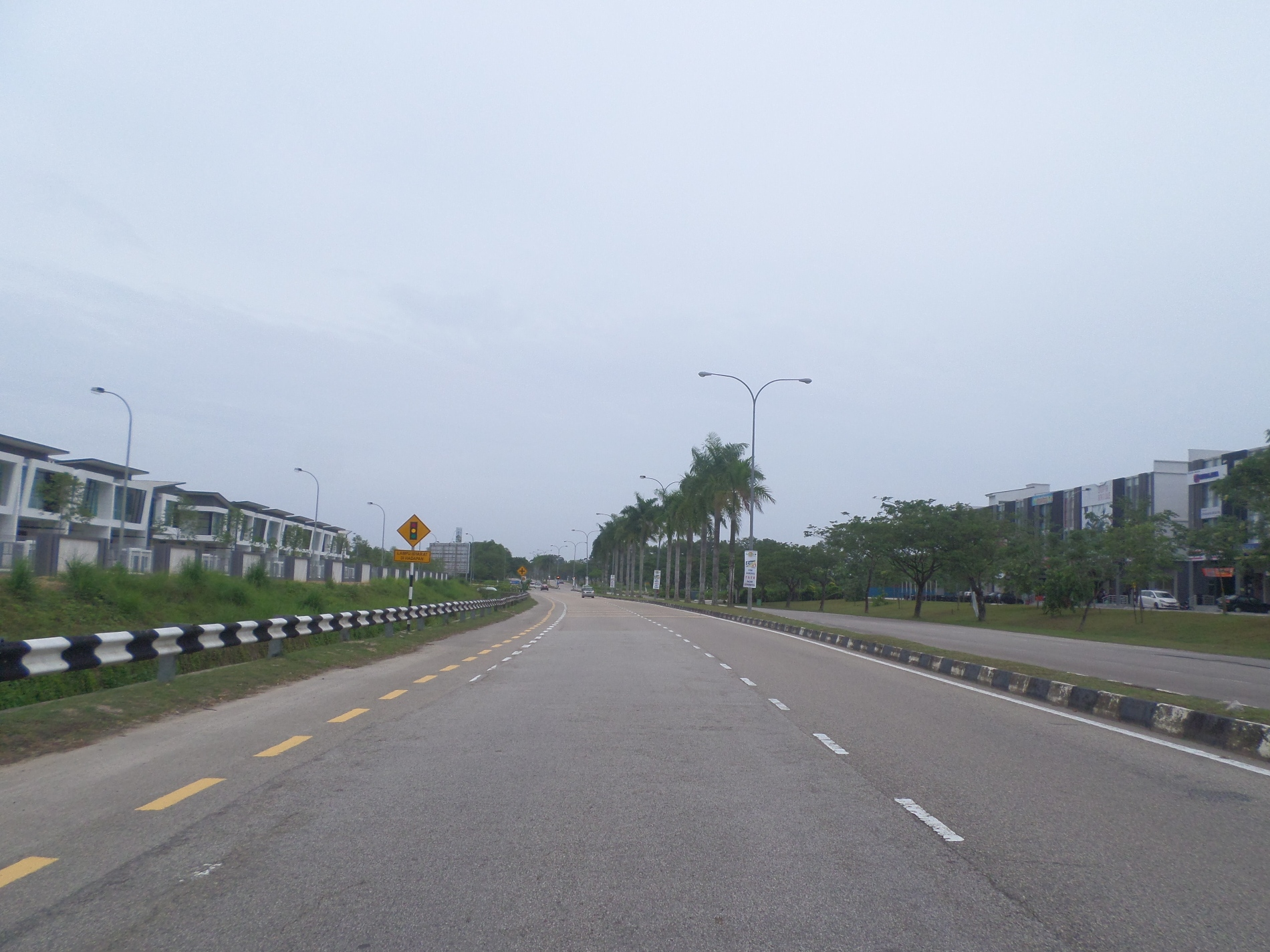 Bandar Seri Alam, Masai, Pasir Gudang, Johor Bahru, Johor, Malaysia